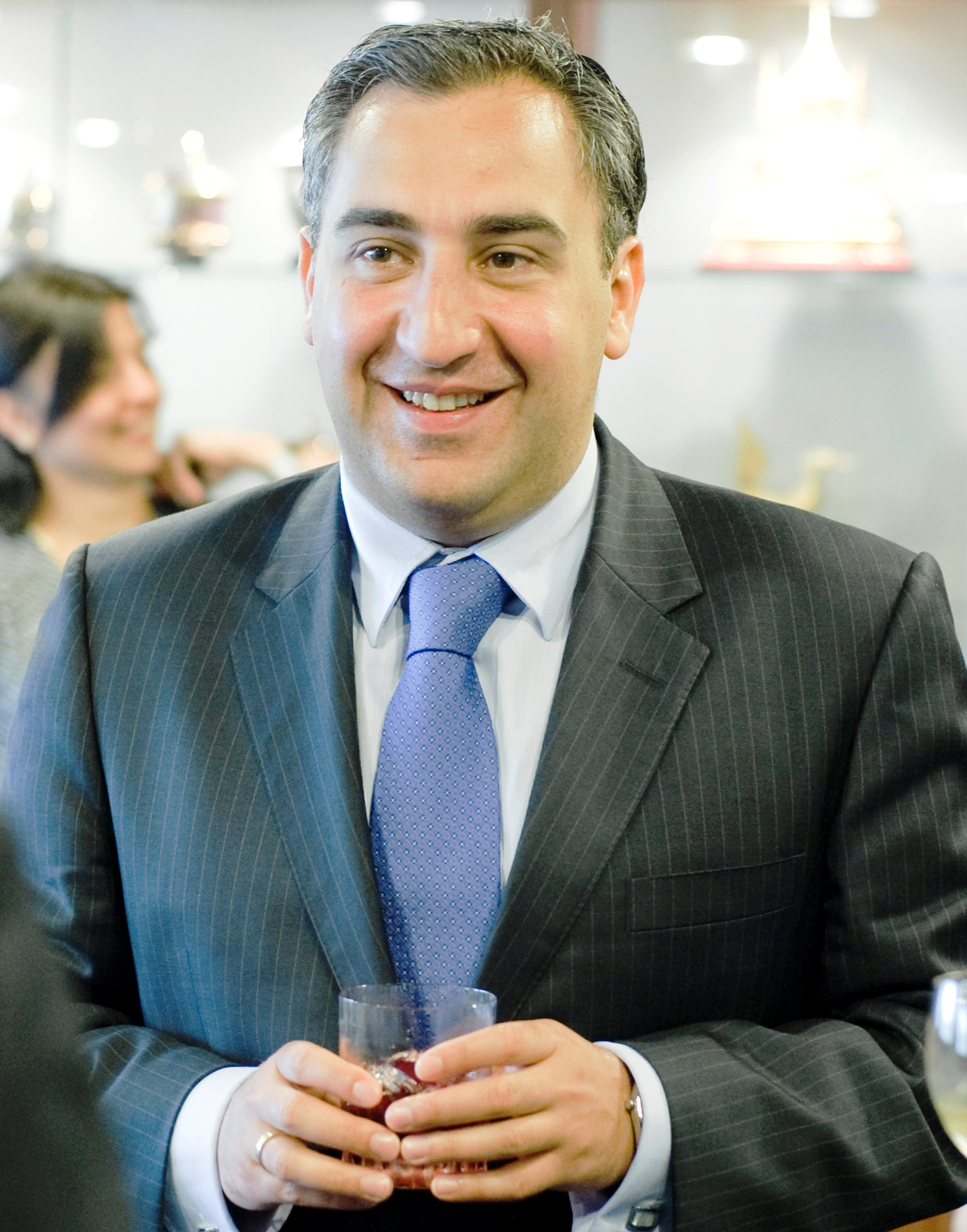 Nika Gilauri with Abhisit Vejjajiva (left) and Trairong Suwankiri (right). (The Official Site of The Prime Minister of Thailand Photo by พีรพัฒน์ วิมลรังครัตน์)